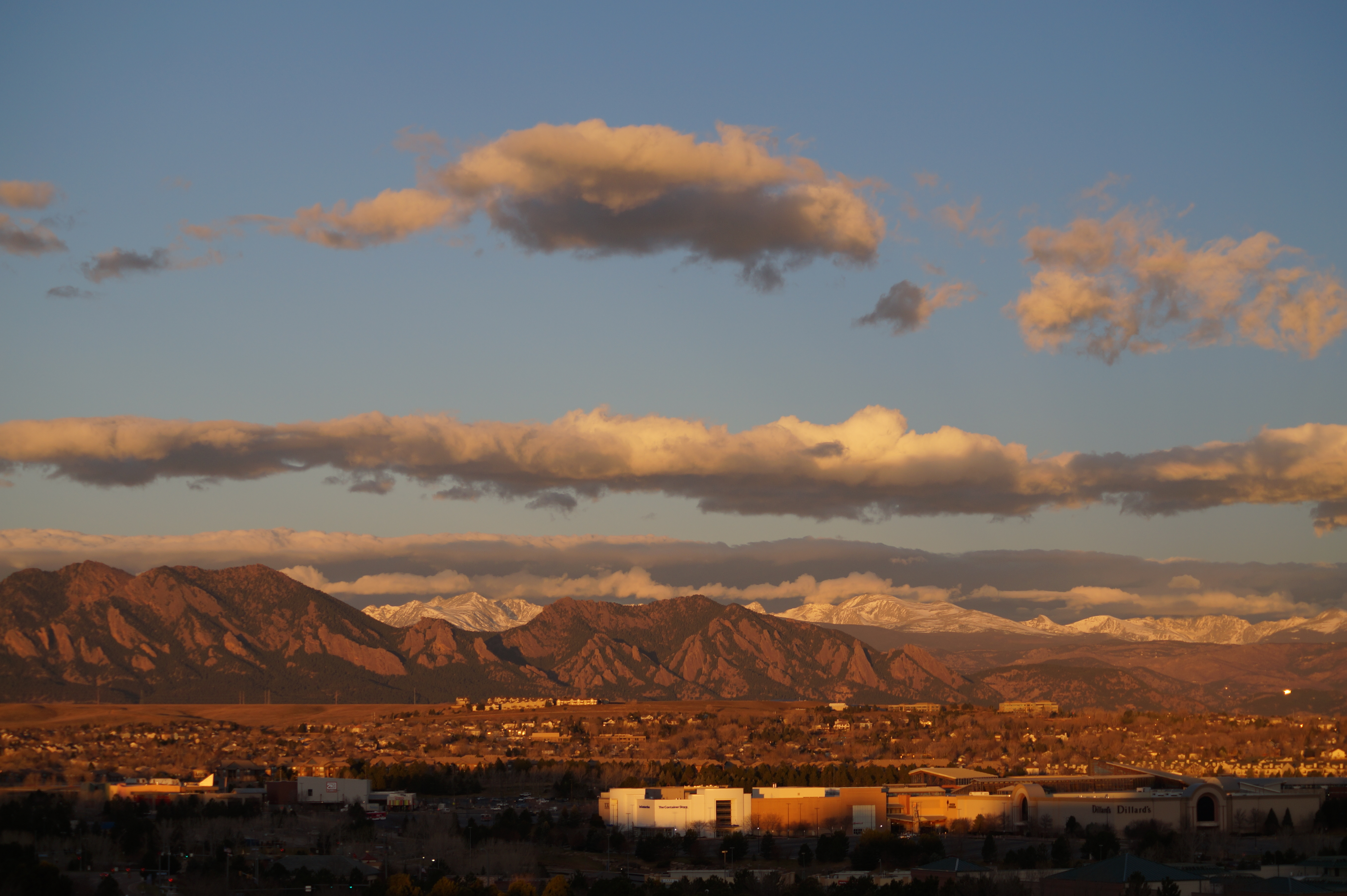 Morning view of Flatirons from Broomfield, Colorado. Picture taken on 1st December 2017